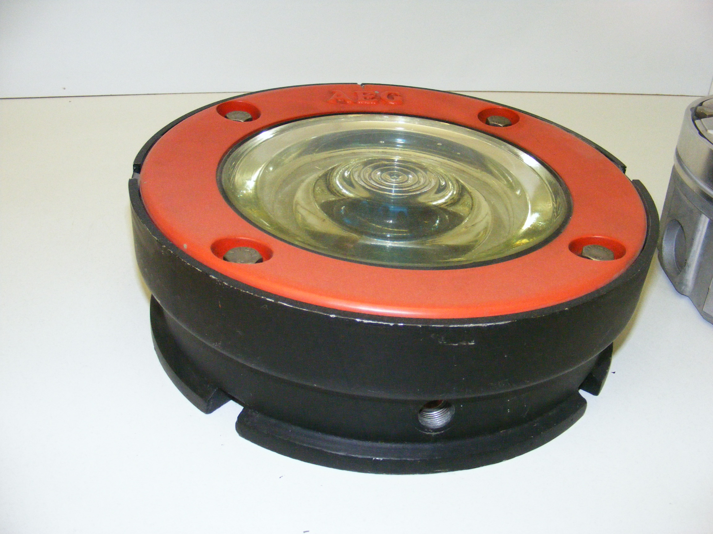 Flush lights for runways